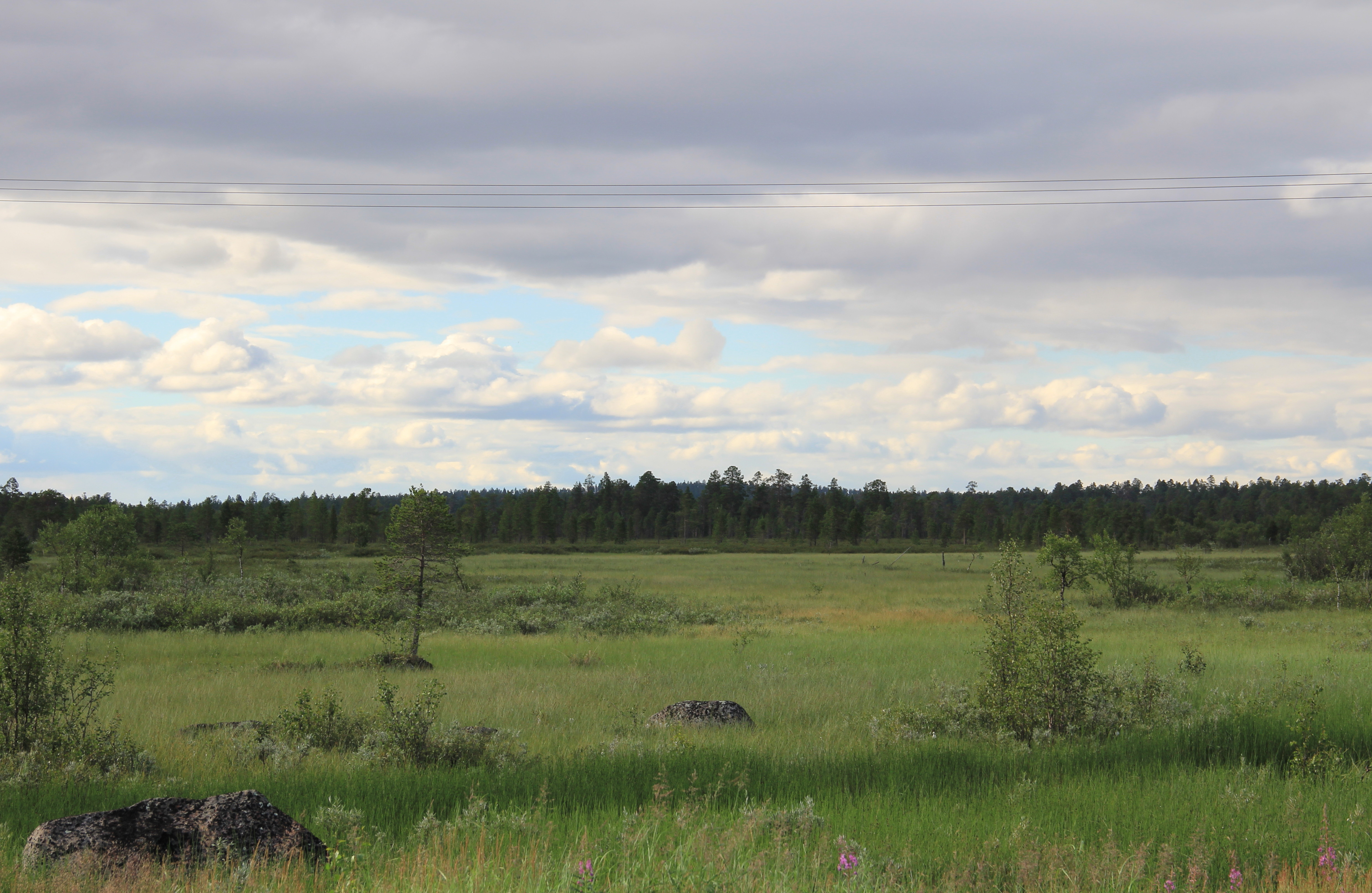 Bog, Inari, Finland